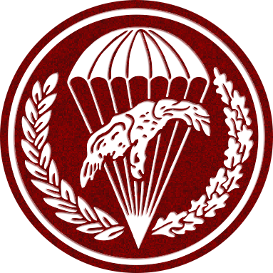 6 Pomorska Airborne Division